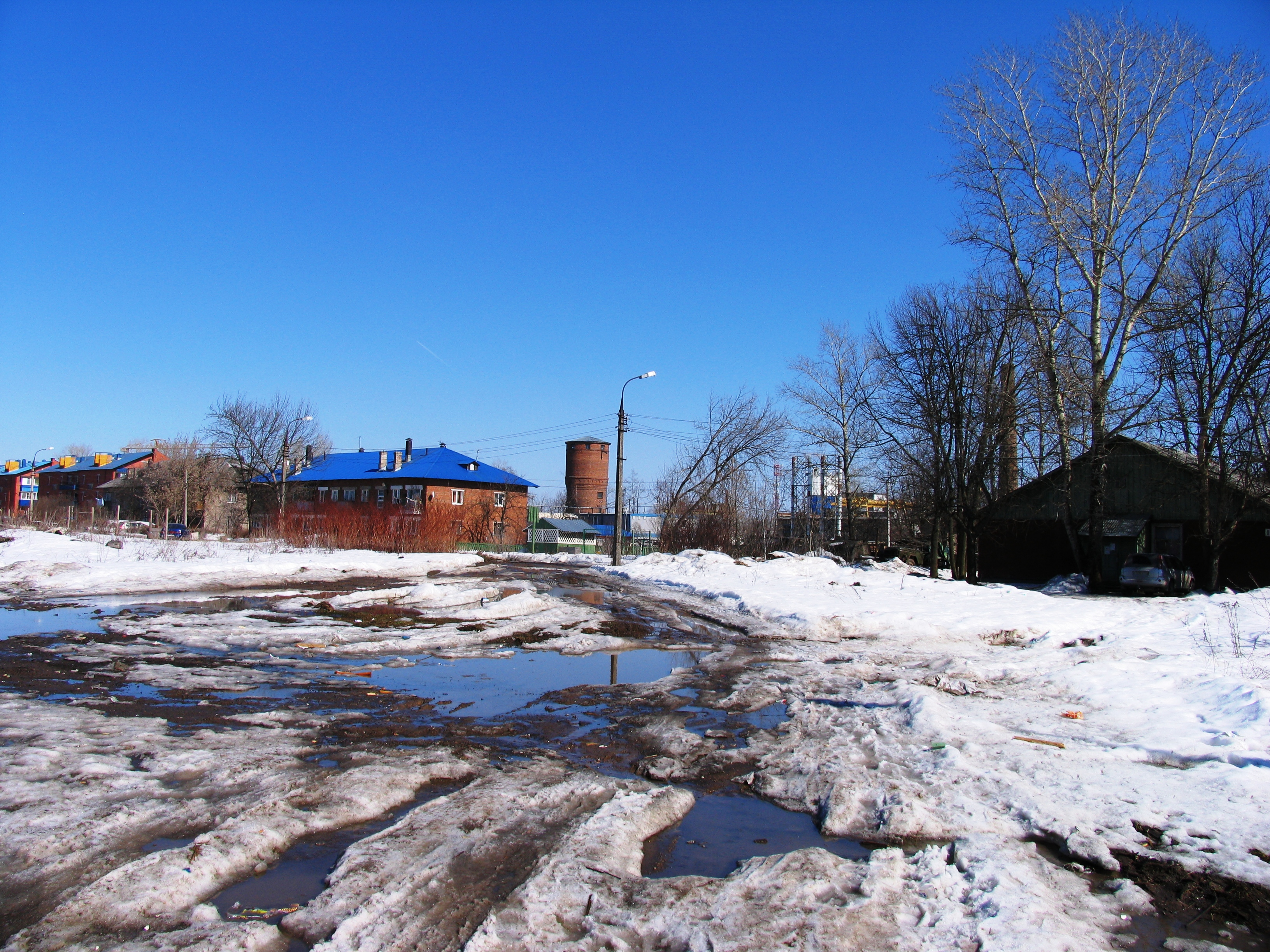 Amerevo — microdistrict of the city of Shchelkovo, Moscow Region, Building 8, Work Street.